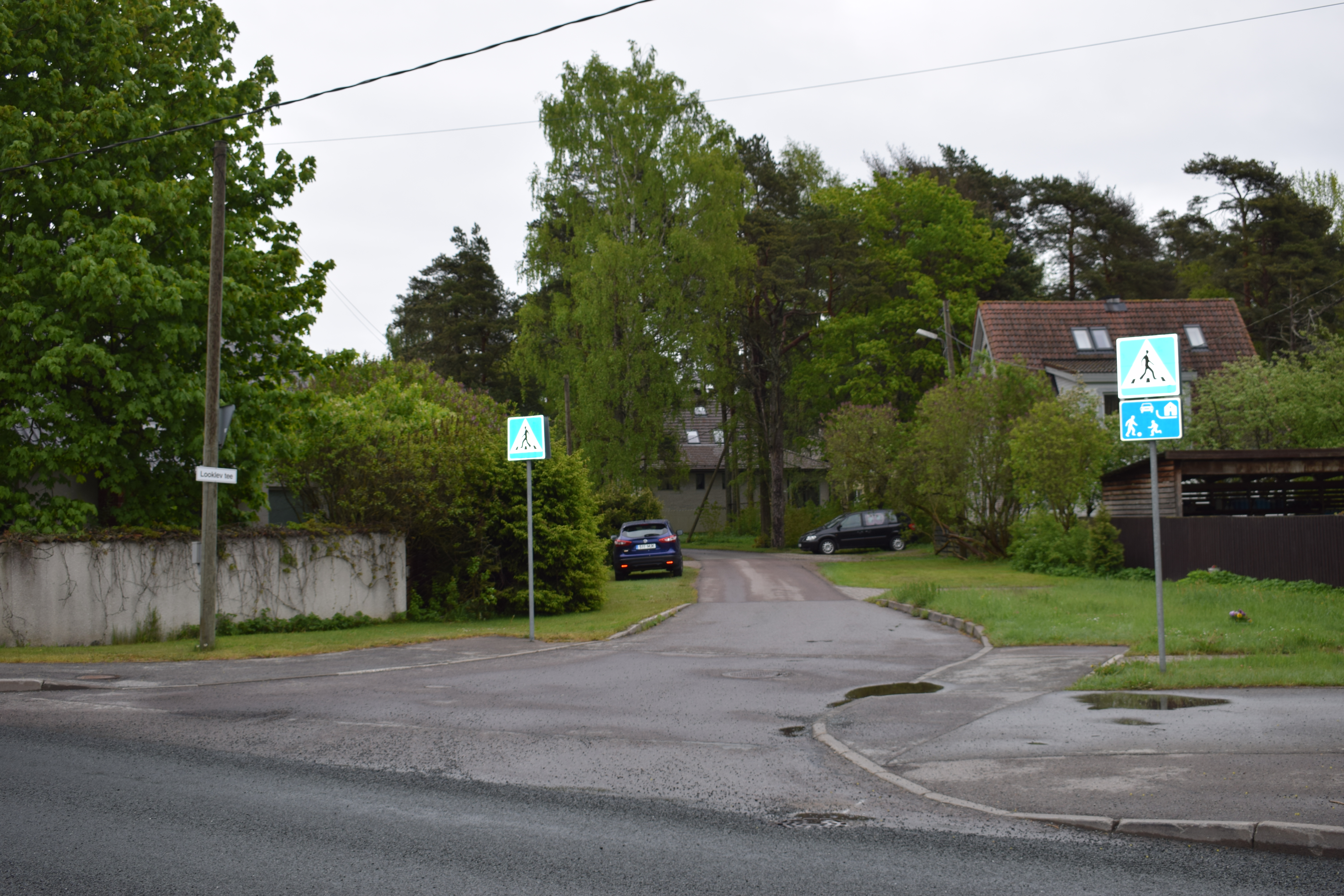 Looklev road